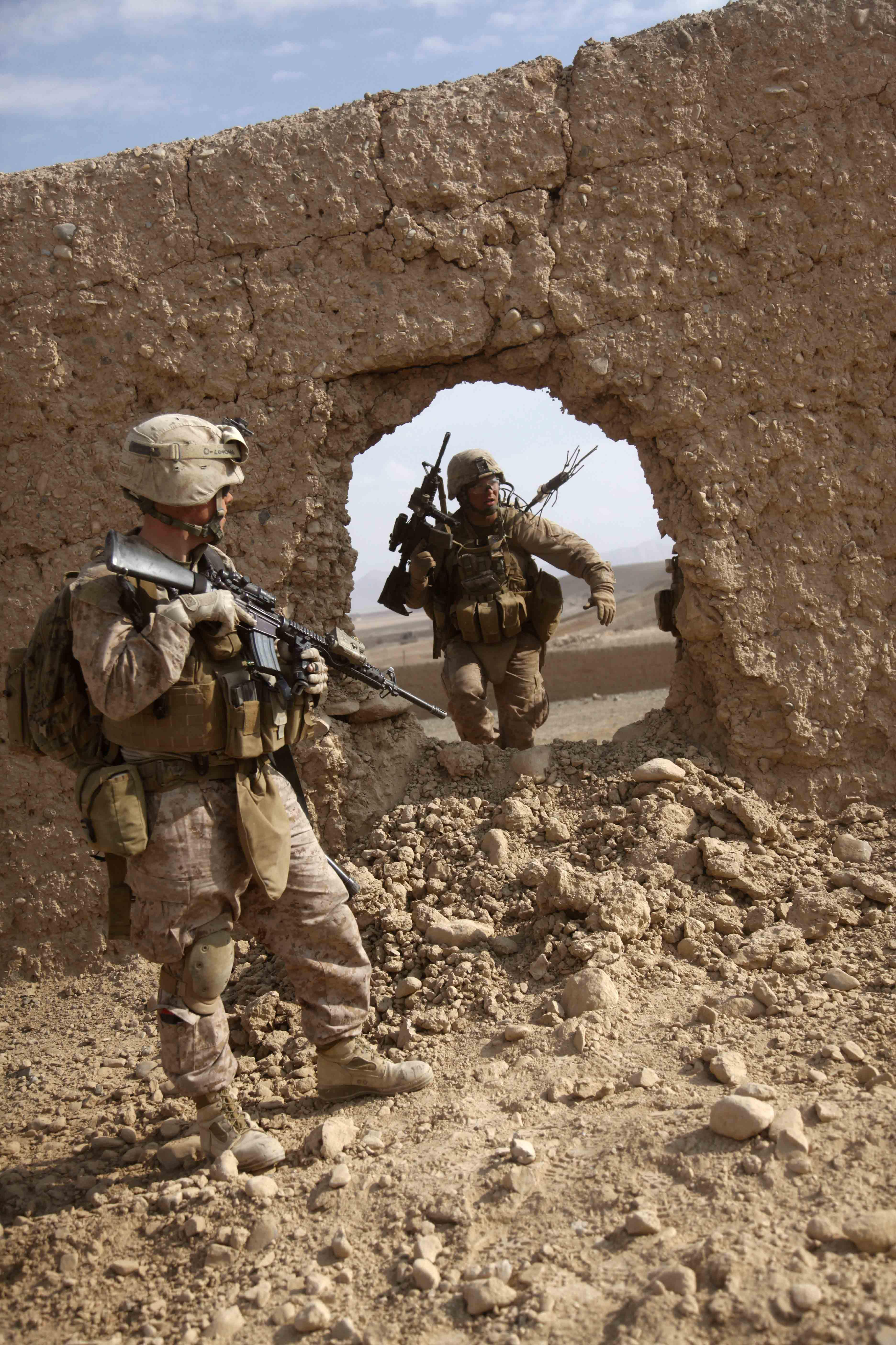 U.S. Marine Corps 1st Lt. Daniel Barbeau, a platoon commander, and Cpl. Vincent O'Brian, an assault man with 2nd Platoon, Lima Company, 3rd Battalion, 5th Marine Regiment, Regimental Combat Team 2, conduct a census patrol in Sangin district, Afghanistan, on Jan. 13, 2011. U.S. Marines conducted patrols to suppress enemy activity and gain the trust of the people. The battalion, one of the combat elements of Regimental Combat Team 2, conducted counterinsurgency operations in partnership with the International Security Assistance Force.